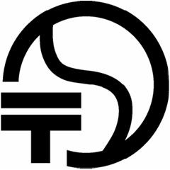 Old Giteki Mark